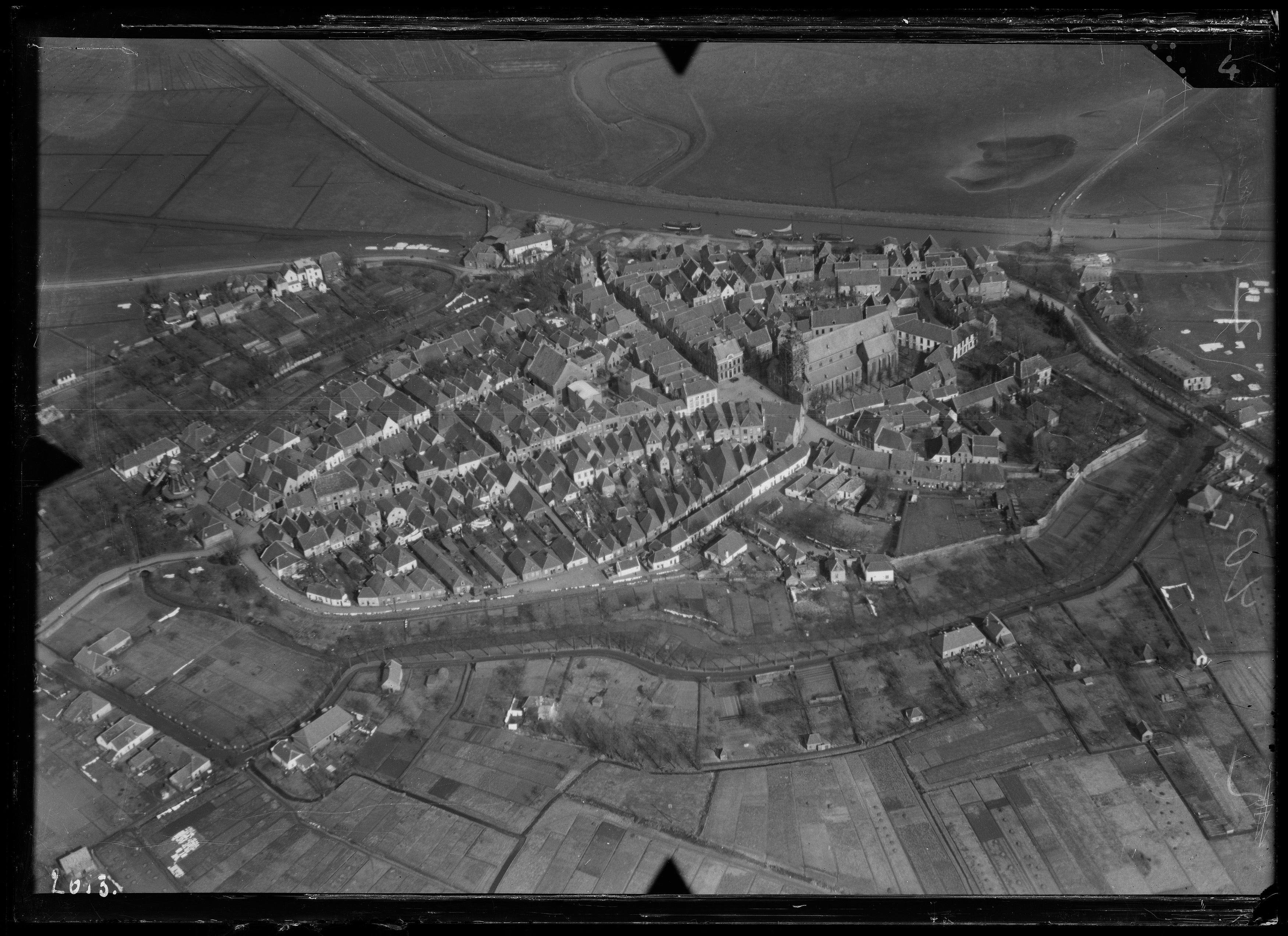 Aerial photograph of Hattum, The Netherlands